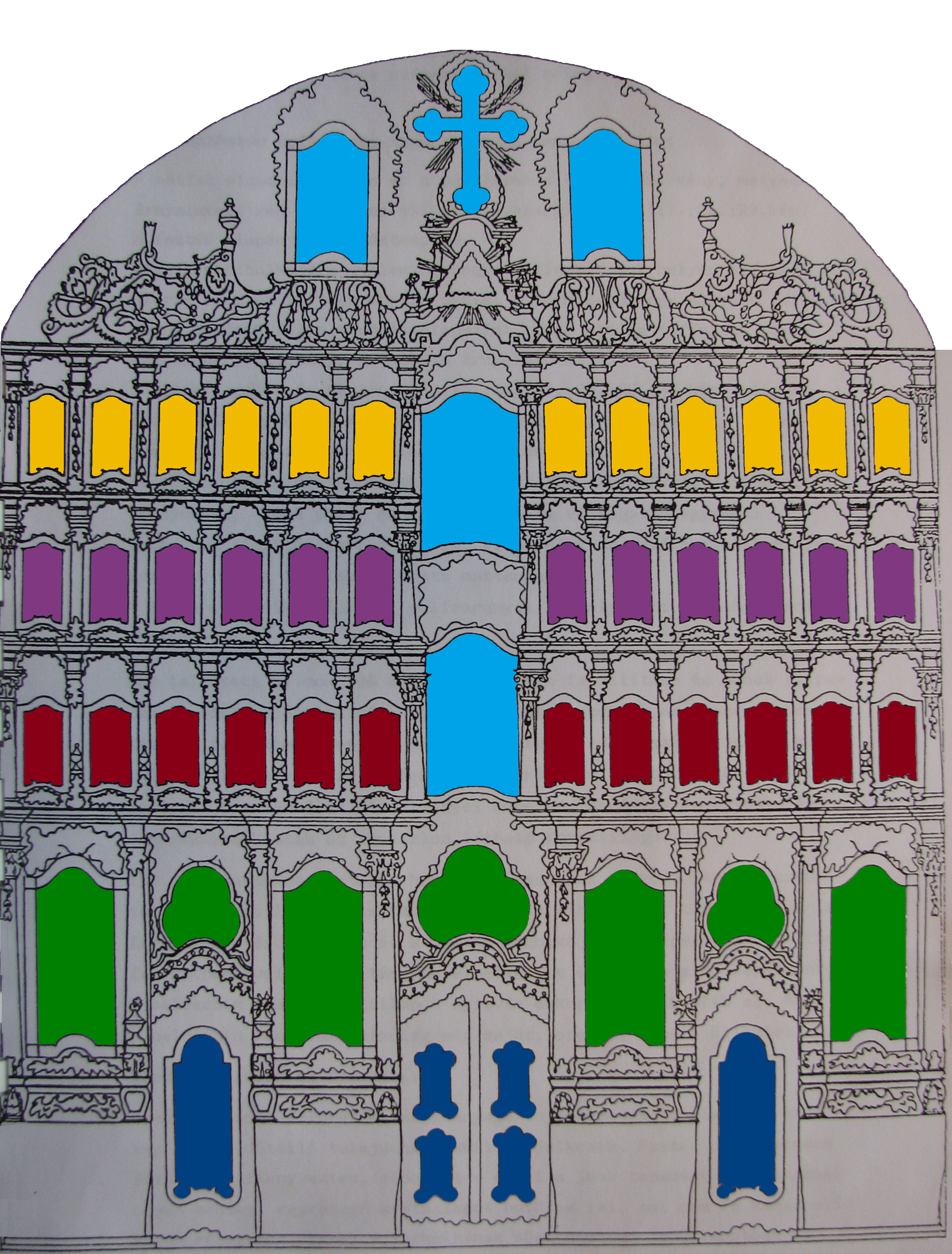 The picture is a sketch view of the iconostasis of the Greek Catholic Cathedral of Hajdúdorog, Hungary. The different colours mark the icons of the iconostase on different levels; so called tiers. The tiers from the bottom: 1. the royal blue icons mark the six paintings on the three doors of the iconostase. 2. The green colour indicates the seven icons of the base tier, or Sovereign. 3. The 12 royal red icons are on the Feast tier. 4. The 12 purple icons belong to the Apostles tier. 5. The yellow ones show the Prophets tier and finally 6. the azure coloured icons make up the vertical two icons above the Royal Doors and the Calvary Scene on the top of the iconostasis.